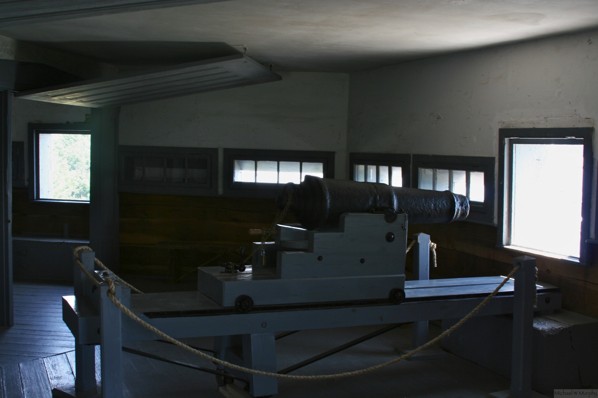 Cannon inside the blockhouse at Fort McClary, Maine, USA.